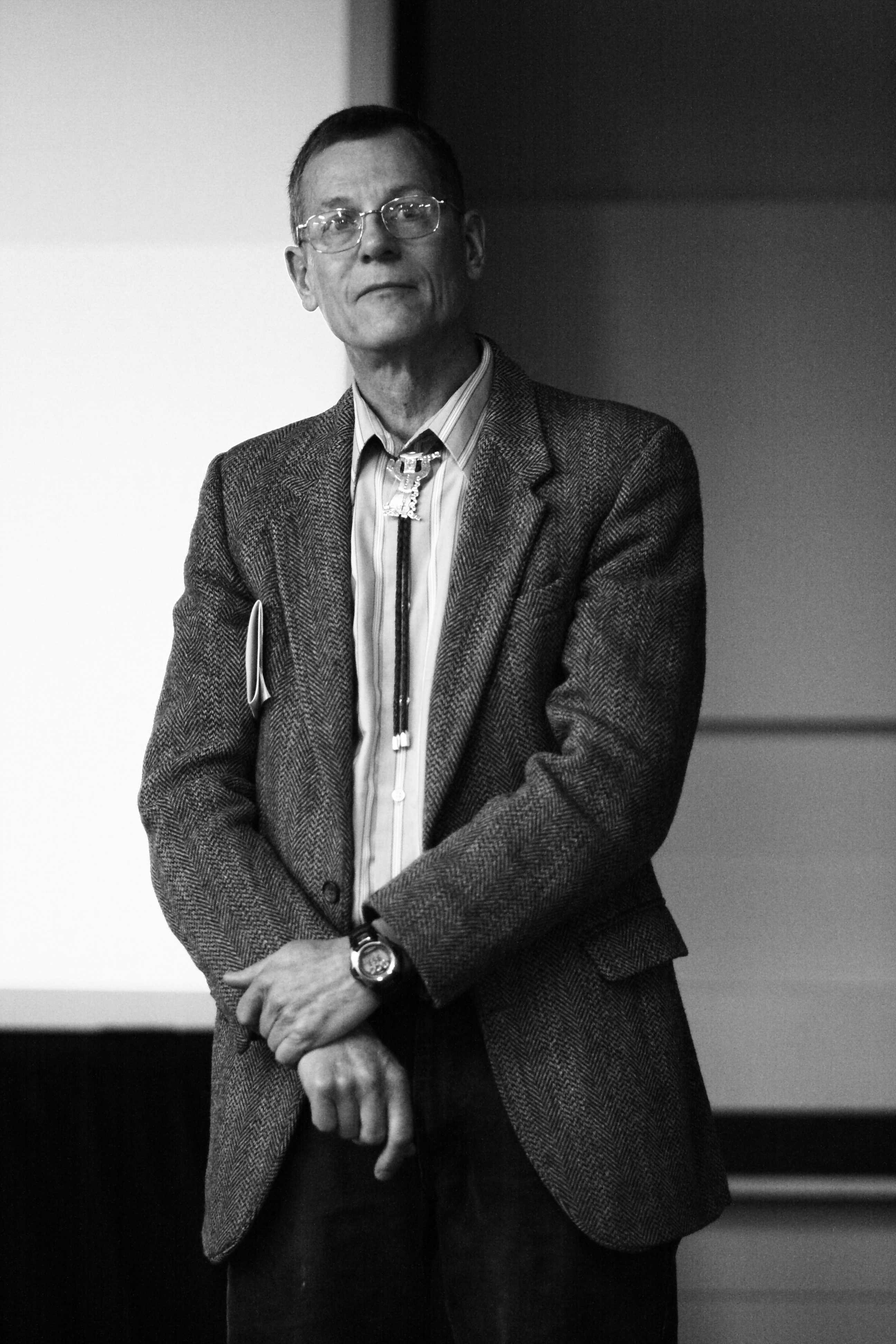 Historian of science William B. Provine at the 2008 History of Science Society meeting